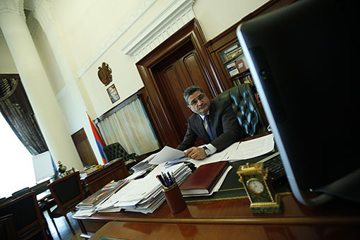 Portrait of Tigran Sargsyan from PAN Photo Agency archive